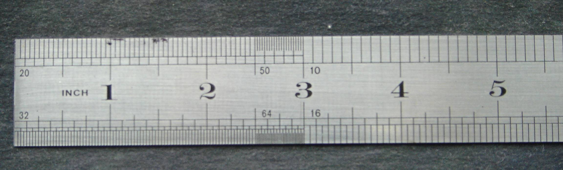 Steel rule gradated in 10ths of an inch in upper and 16ths of an inch on the lower edges.